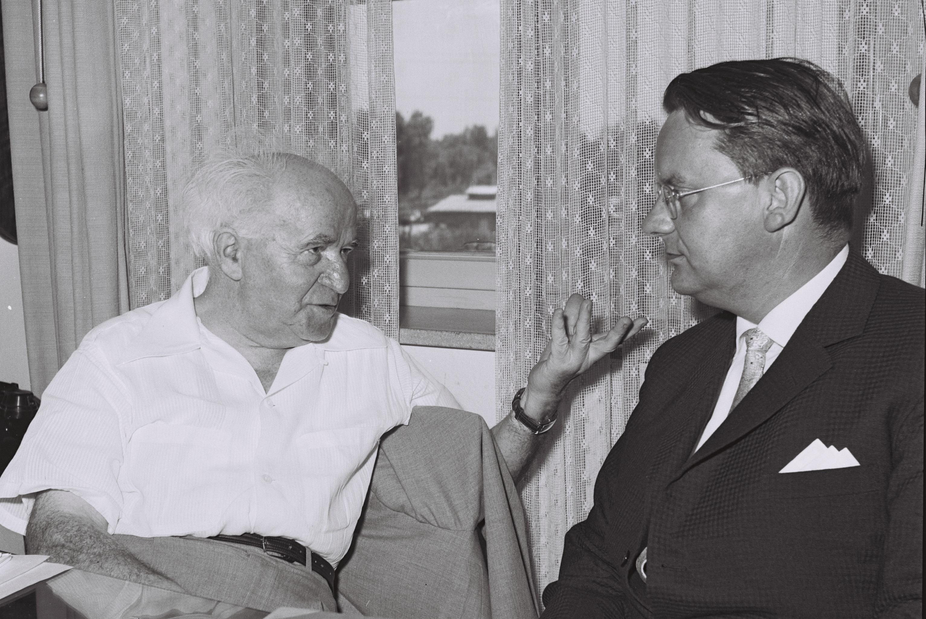 Gylfi Þ. Gíslason, Iceland's education minister, with David Ben Gurion, Israel's PM, 11 July, 1958